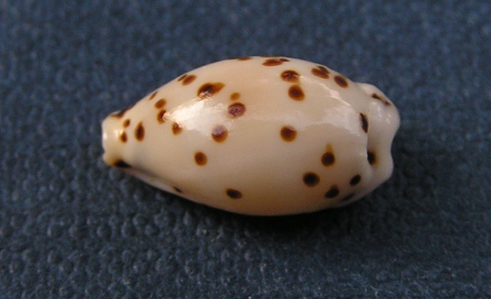 Notadusta punctata (Linnaeus, 1771) (synonym: Ransoniella glandina Dolin, 2007), a cowry from the family Cypraeidae; Philippines